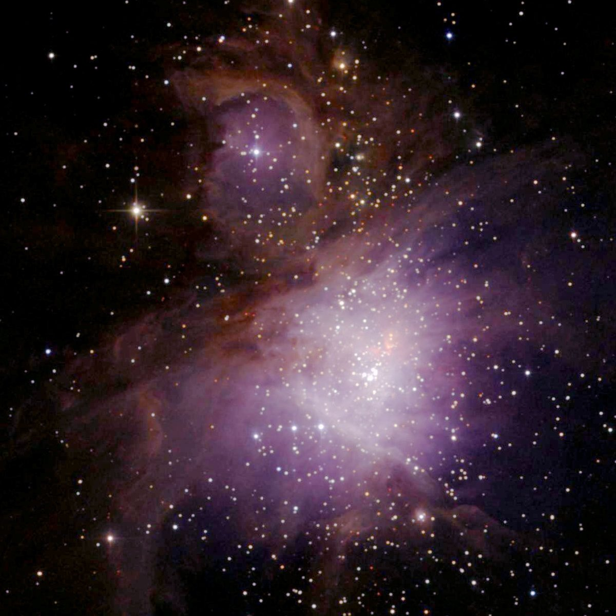 Messier 42, Orion Nebula